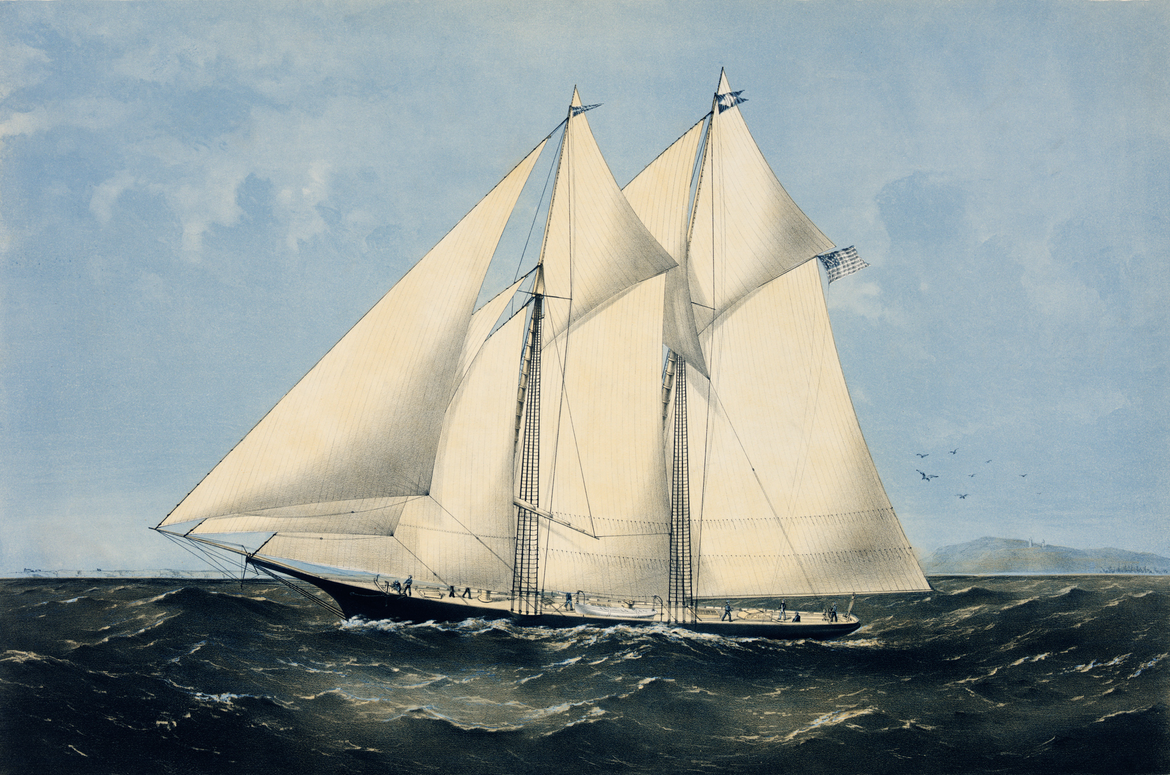 Chromolithograph of the yacht Sappho of New York published by Currier & Ives. Original from Library of Congress. Digitally enhanced by rawpixel.